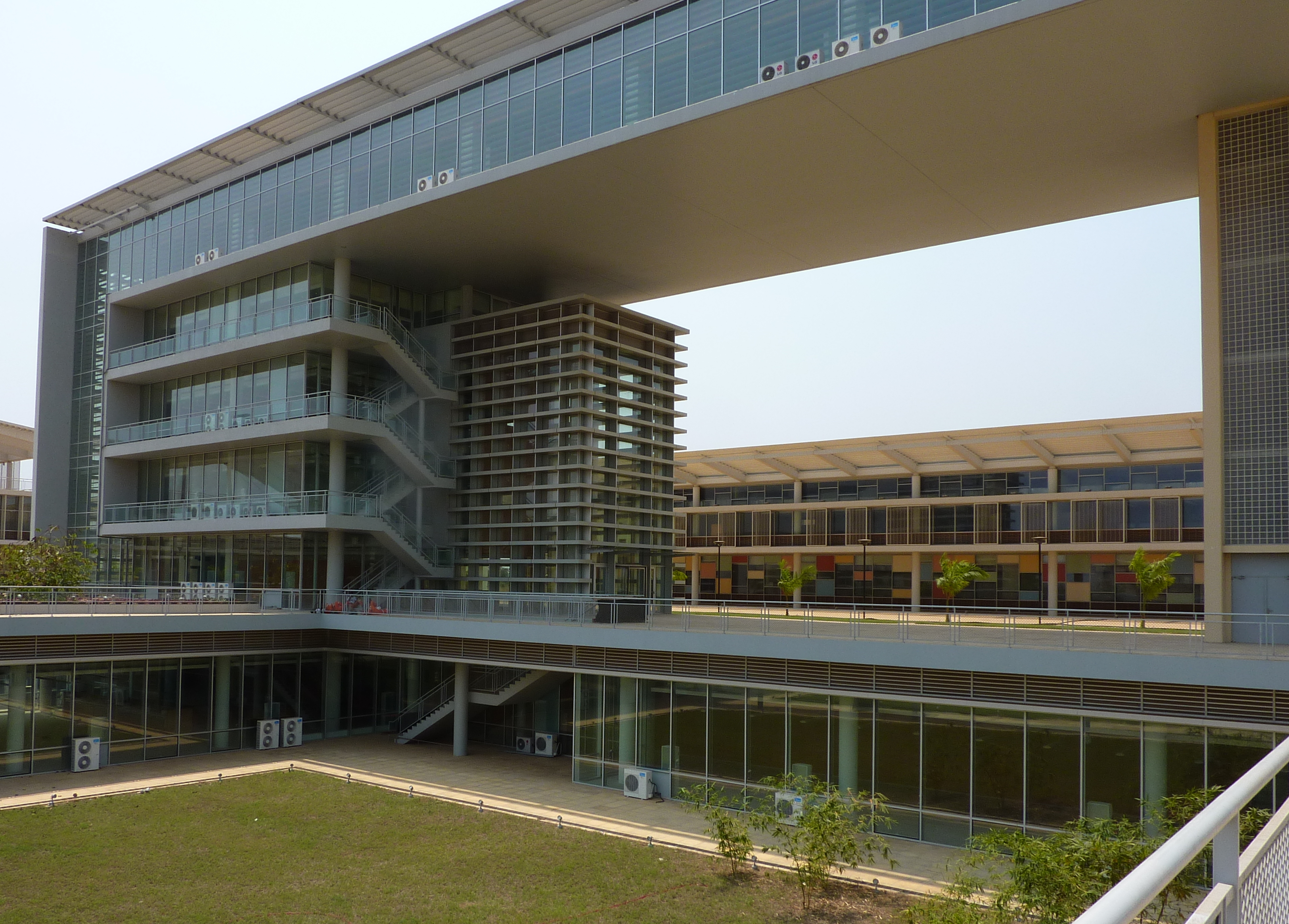 New campus